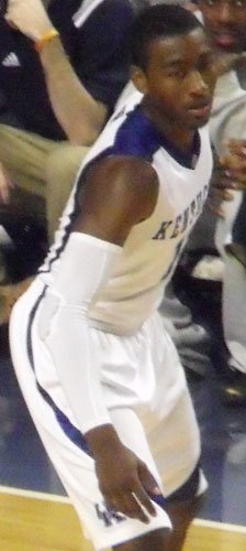 John Wall in a game for the Kentucky Wildcats